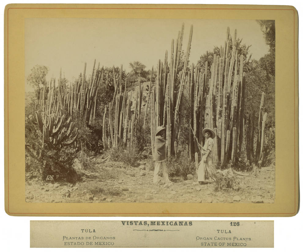 Title: Tula, Plantas de Organos Alternative Title: Tula, Organ Cactus Plants. Creator: Briquet, Abel Date: ca. 1885-1899 Part Of: Views in Mexico Place: Tula de Allende, Hidalgo, Mexico Physical Description: 1 photographic print on boudoir card mount: albumen; 13 x 19 cm on 16 x 22 cm mount File: ag1985_0372_126c_tula.jpg Rights: Please cite DeGolyer Library, Southern Methodist University when using this file. A high-resolution version of this file may be obtained for a fee. For details see the web page. For other information, . For more information and to view the image in high resolution, see: View the Mexico: Photographs, Manuscripts, and Imprints